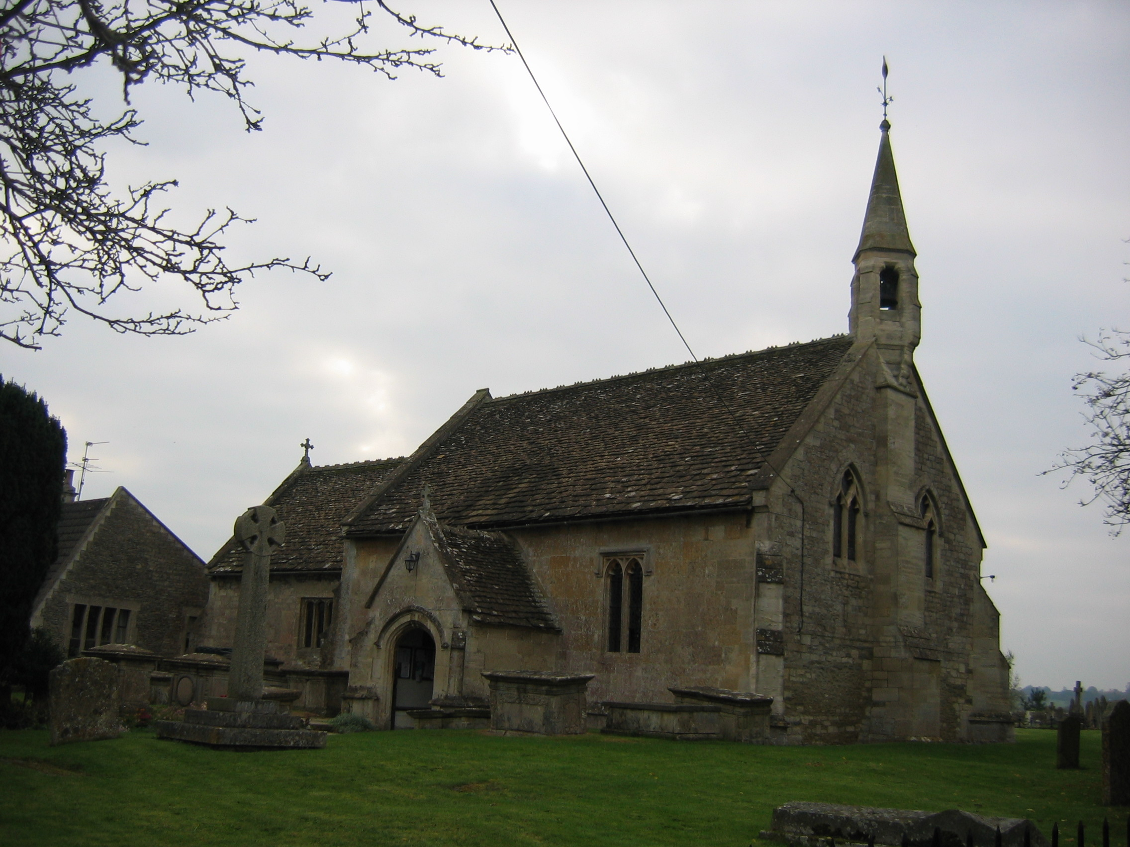 Saint George's church in Semington